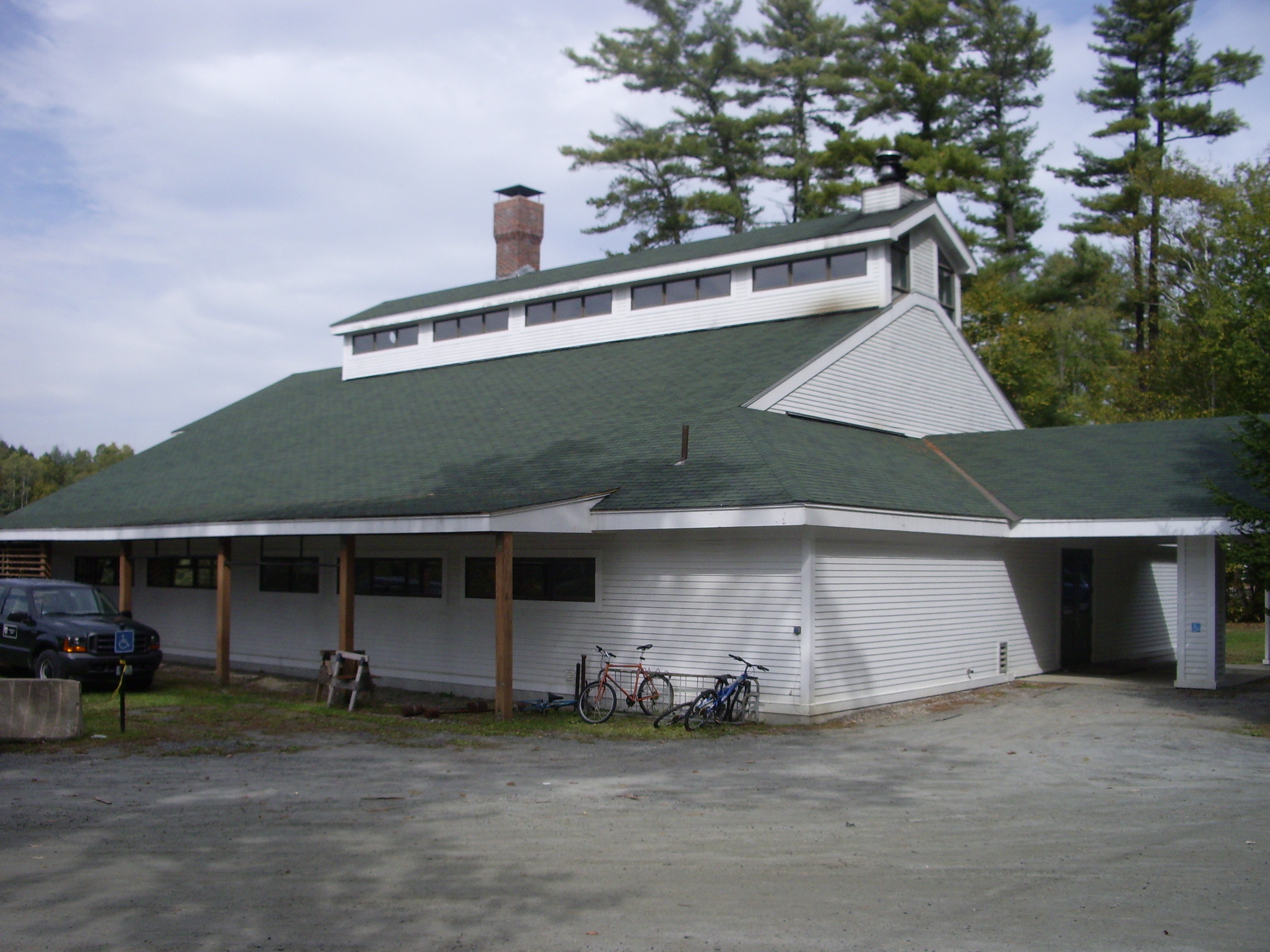 Photograph of Friends of Dartmouth Rowing Boathouse at the campus of Dartmouth College in Hanover, New Hampshire.